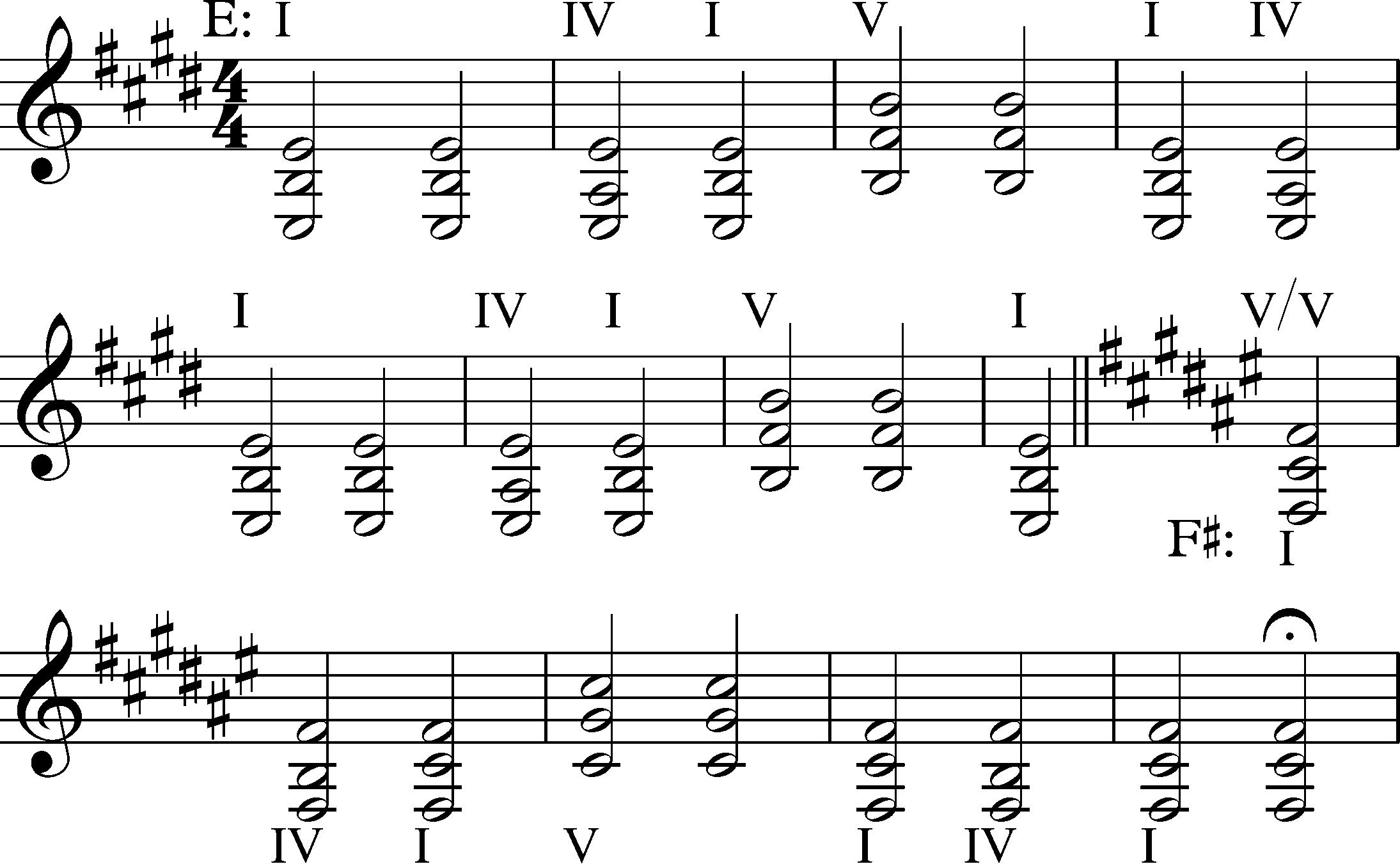 Truck driver's gear change, modulation up a whole step, in "Because the Night".